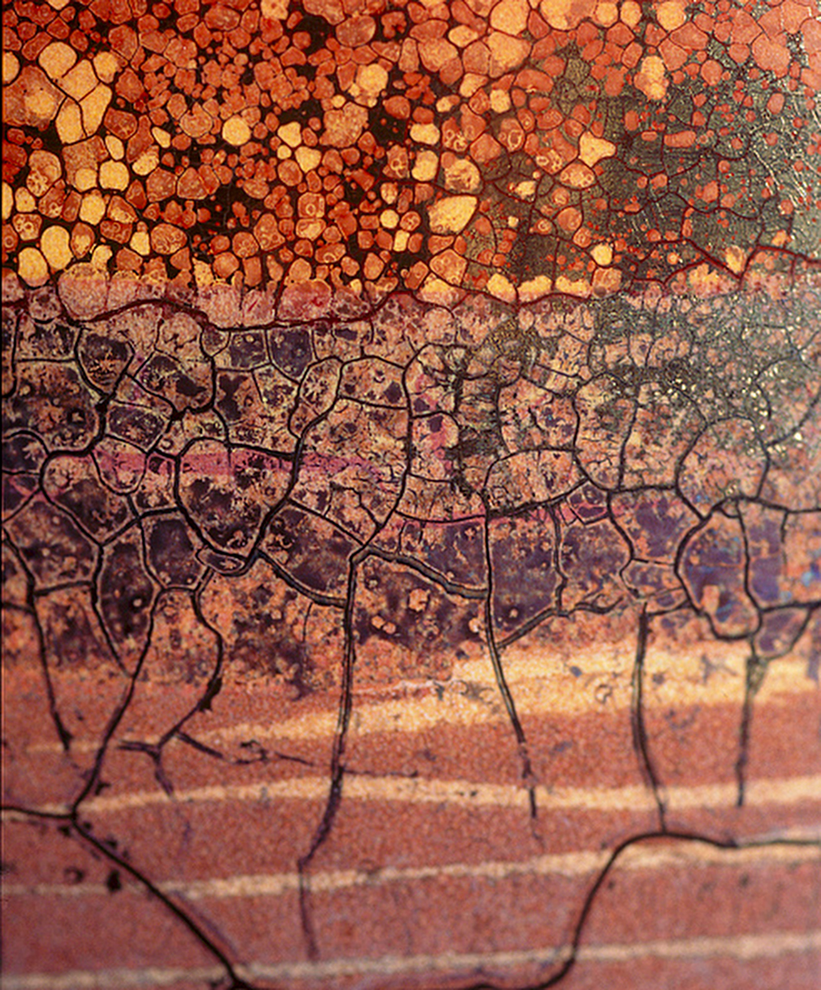 Detail of a gold lustre vessel by Pippin Drysdale